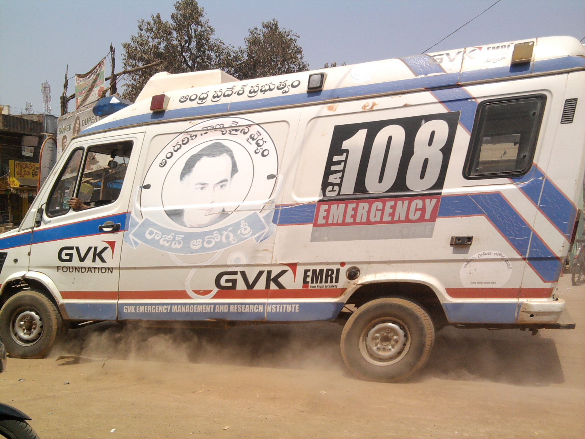 Health for All Ambulance AP. This Ambulance Call No. 108